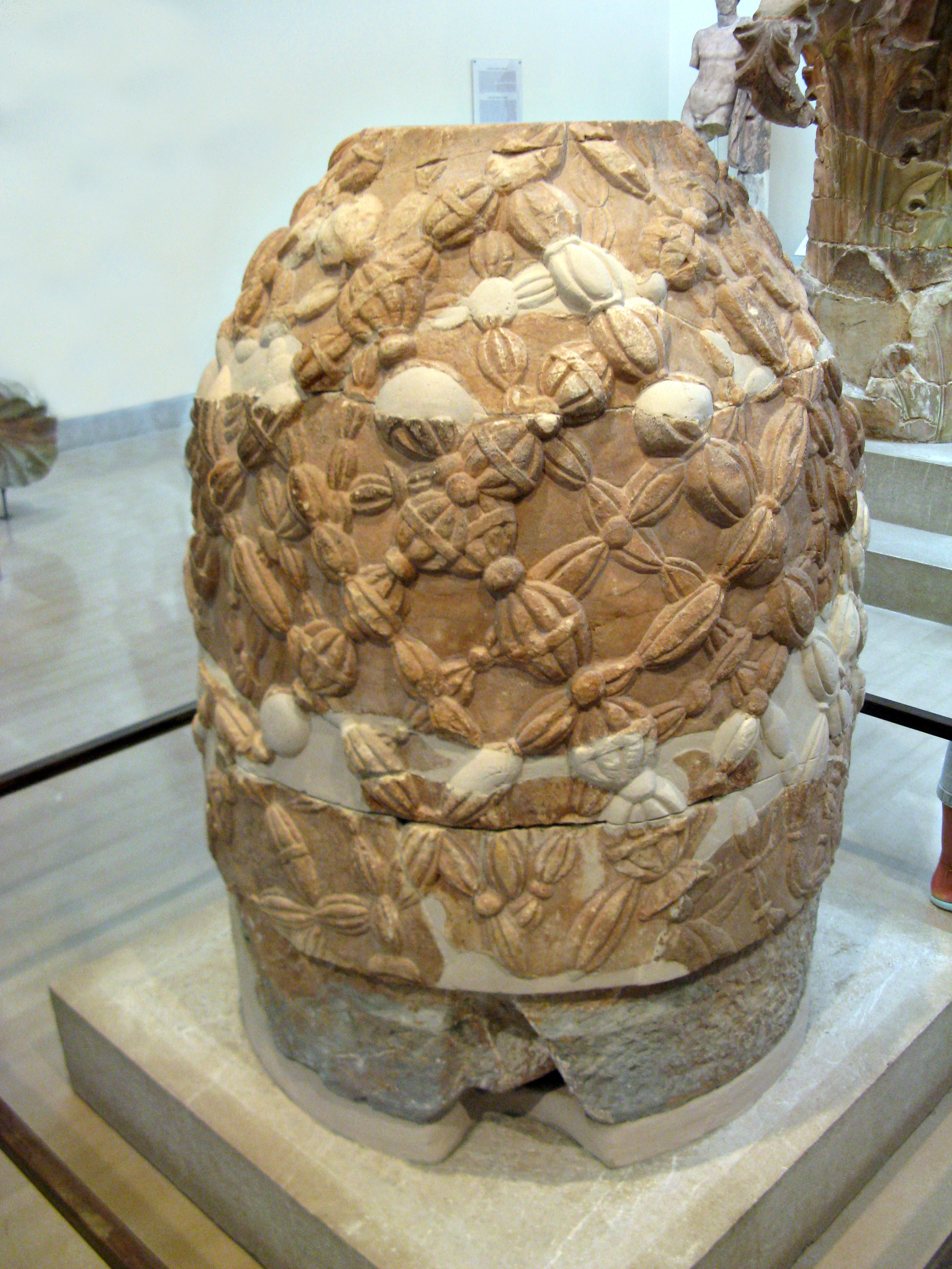 Omphalos in Delphi archeologic museum